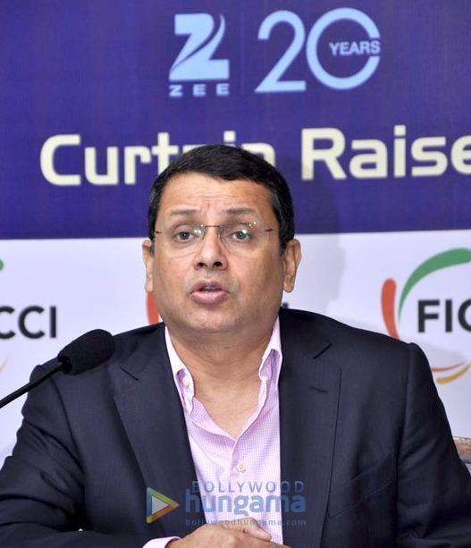 Uday Shankar (businessman)